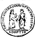 738 woodcuts illustrating the work A Dictionary of Roman Coins, Republican and Imperial (1889). To identify a coin please look at the filename to identify a page number, and check the Dictionary on numiswiki